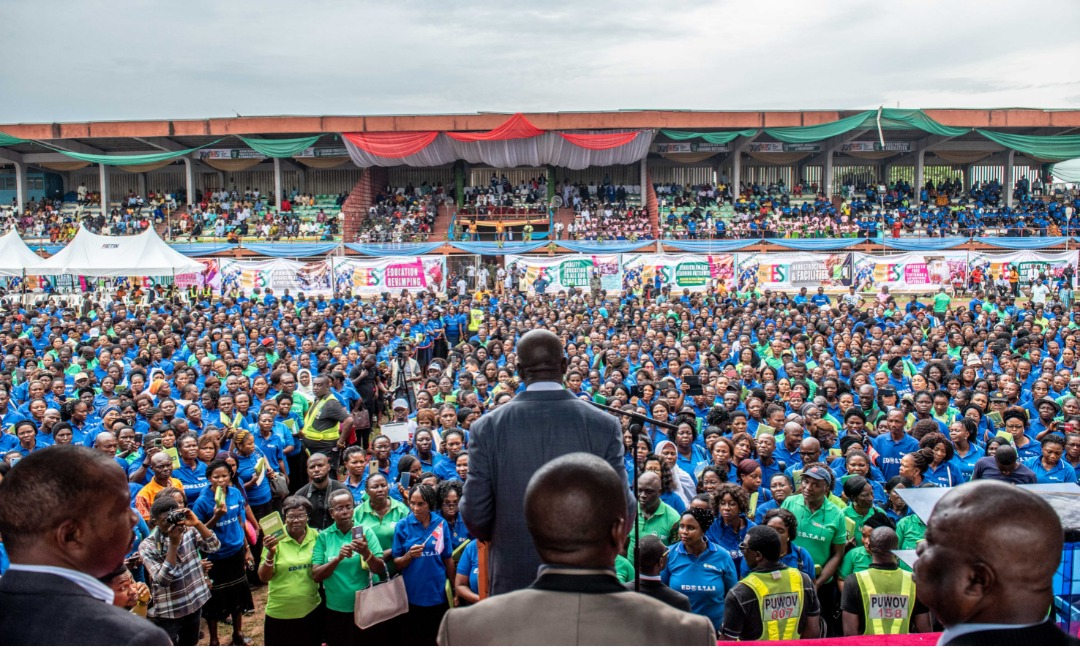 Governor of Edo State, Godwin Obaseki addresses a crowd of 7,000 graduating government qualified teachers at the Samuel Ogbemudia Stadium, Benin City for launch of the Edo Basic Education Sector Transformation (EdoBEST) initiative on October 10, 2018.